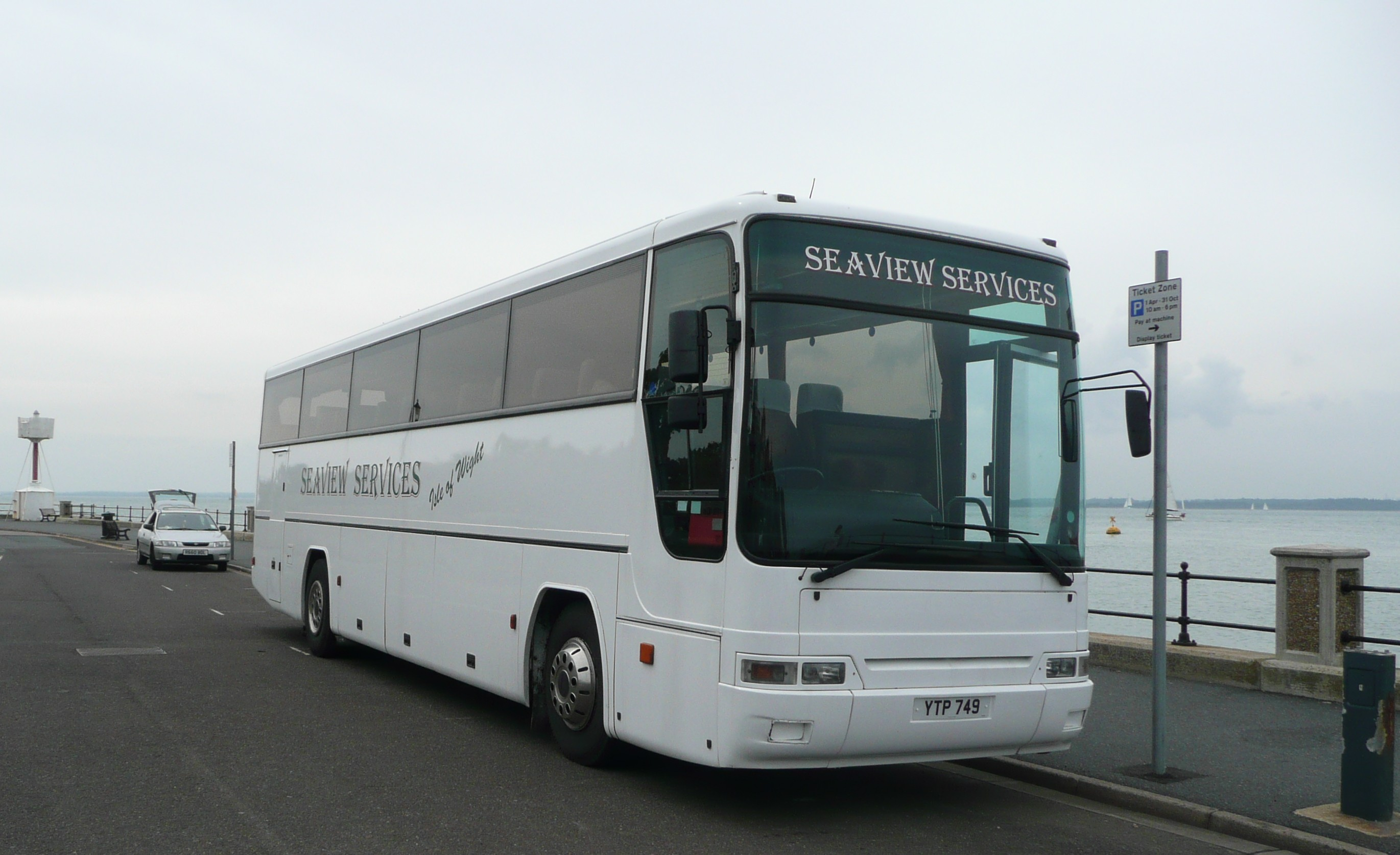 Seaview Services' YTP 749, a Volvo B10M/Plaxton Premiere 350 parked at Egypt Point, Cowes, Isle of Wight.